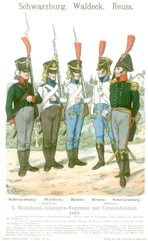 Schwarzburg. Waldeck. Reuss. 6. Rheinbund-Regiment. 1812